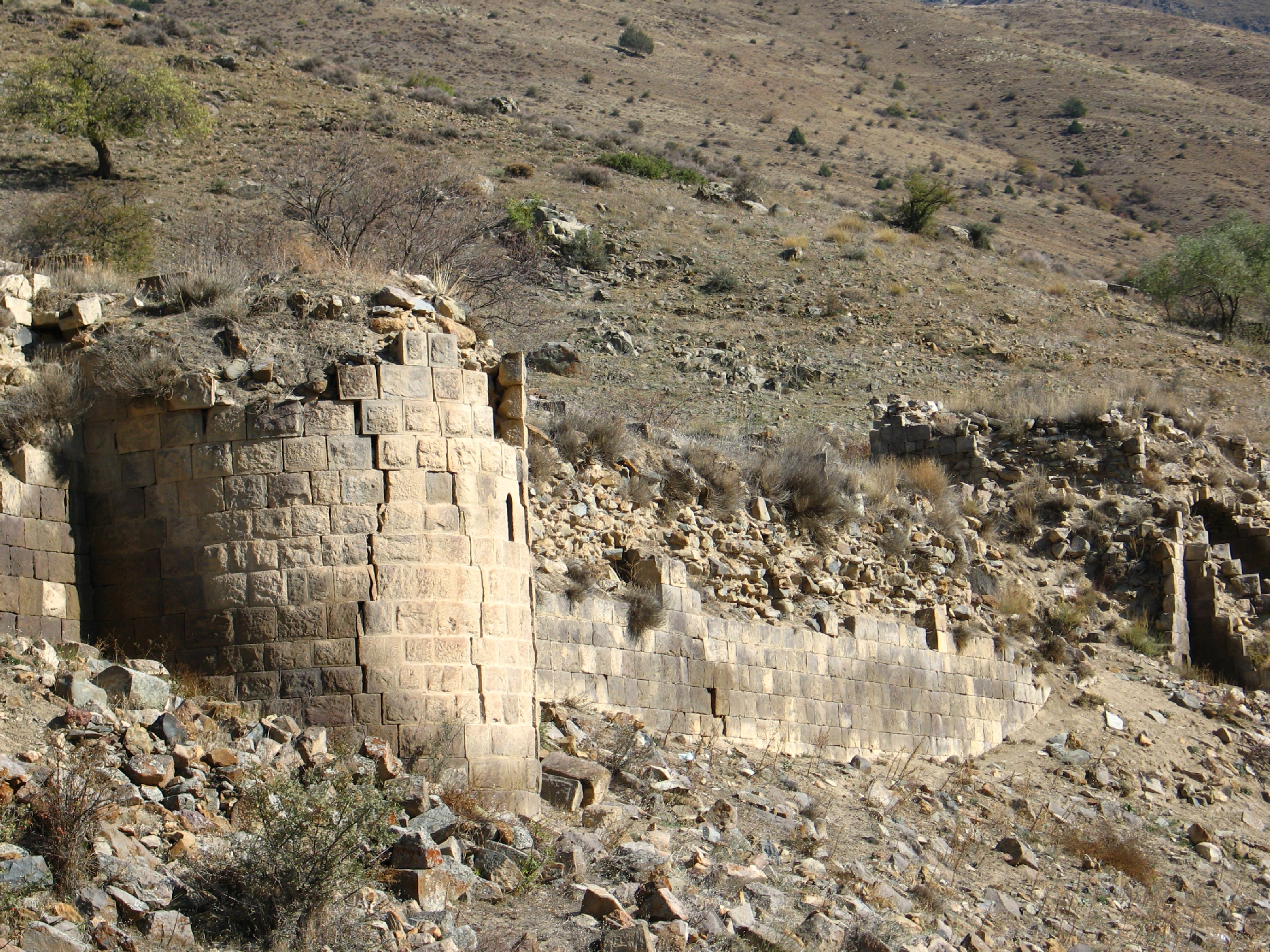 ՎԱՆԱԿԱՆ ՀԱՄԱԼԻՐ ՇԱՏԻՎԱՆՔ (ՇԱՏԱՆՅԱ ՎԱՆՔ, ՇԱՏԻՆԻ ՎԱՆՔ, ՇԱՏԻԿՈ ԱՆԱՊԱՏ) 35/14